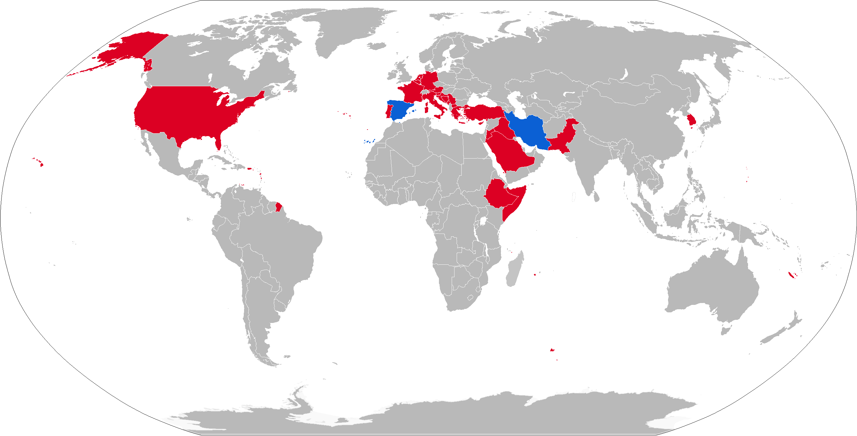 Map of M47 Patton operators